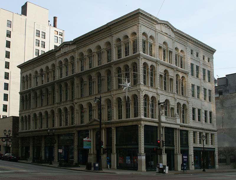 The Iron Block Building, 205 E. Wisconsin Ave., Milwaukee, Wisconsin. The facade is cast iron. It was shipped from New York and built in 1861.